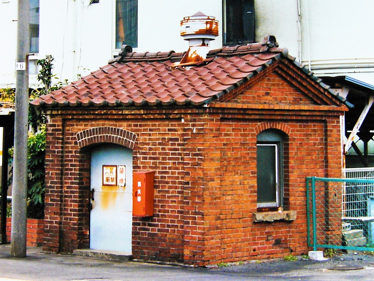 Fujieda Station